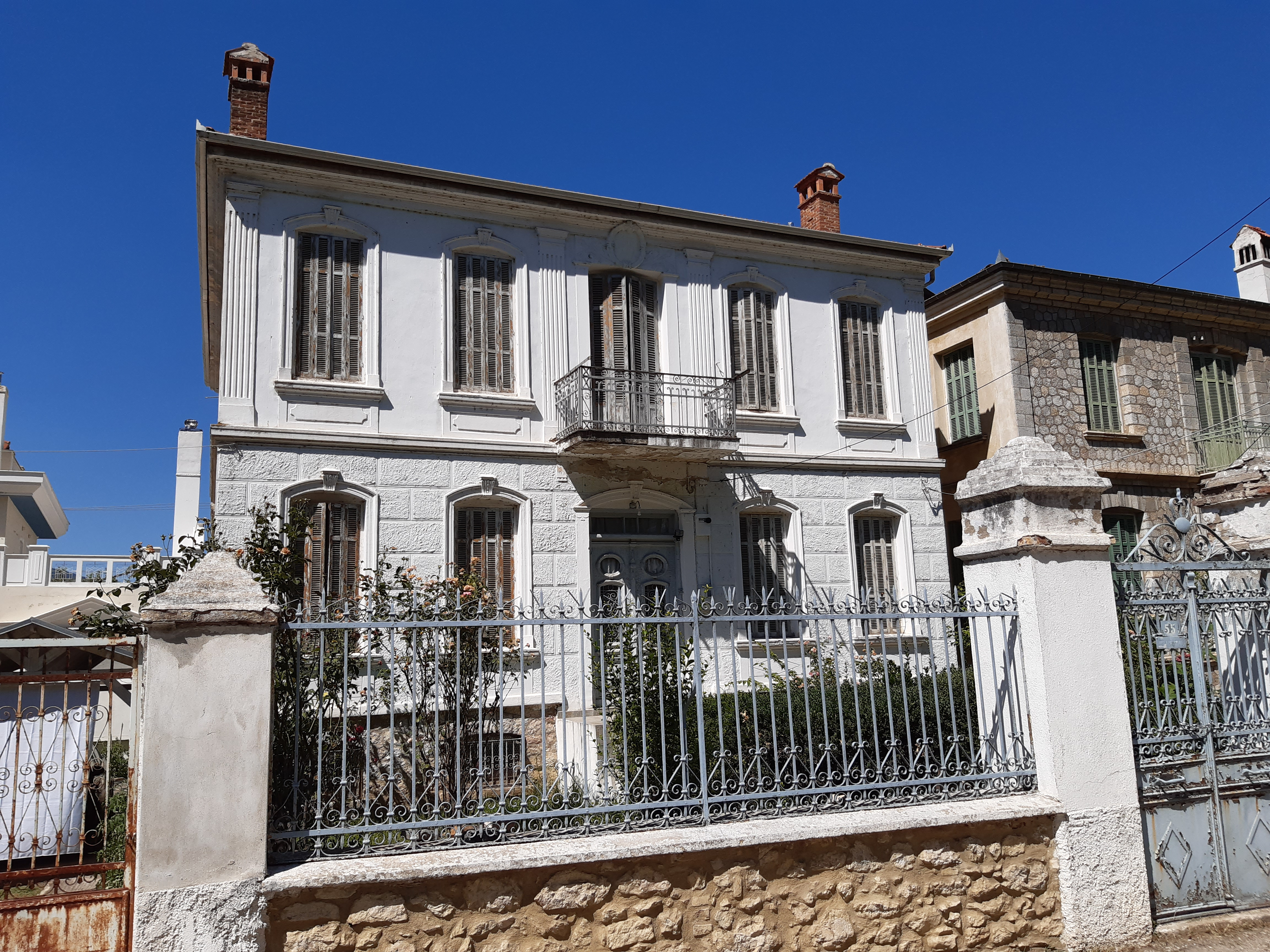 Ikonomidis Mansion in August 2020